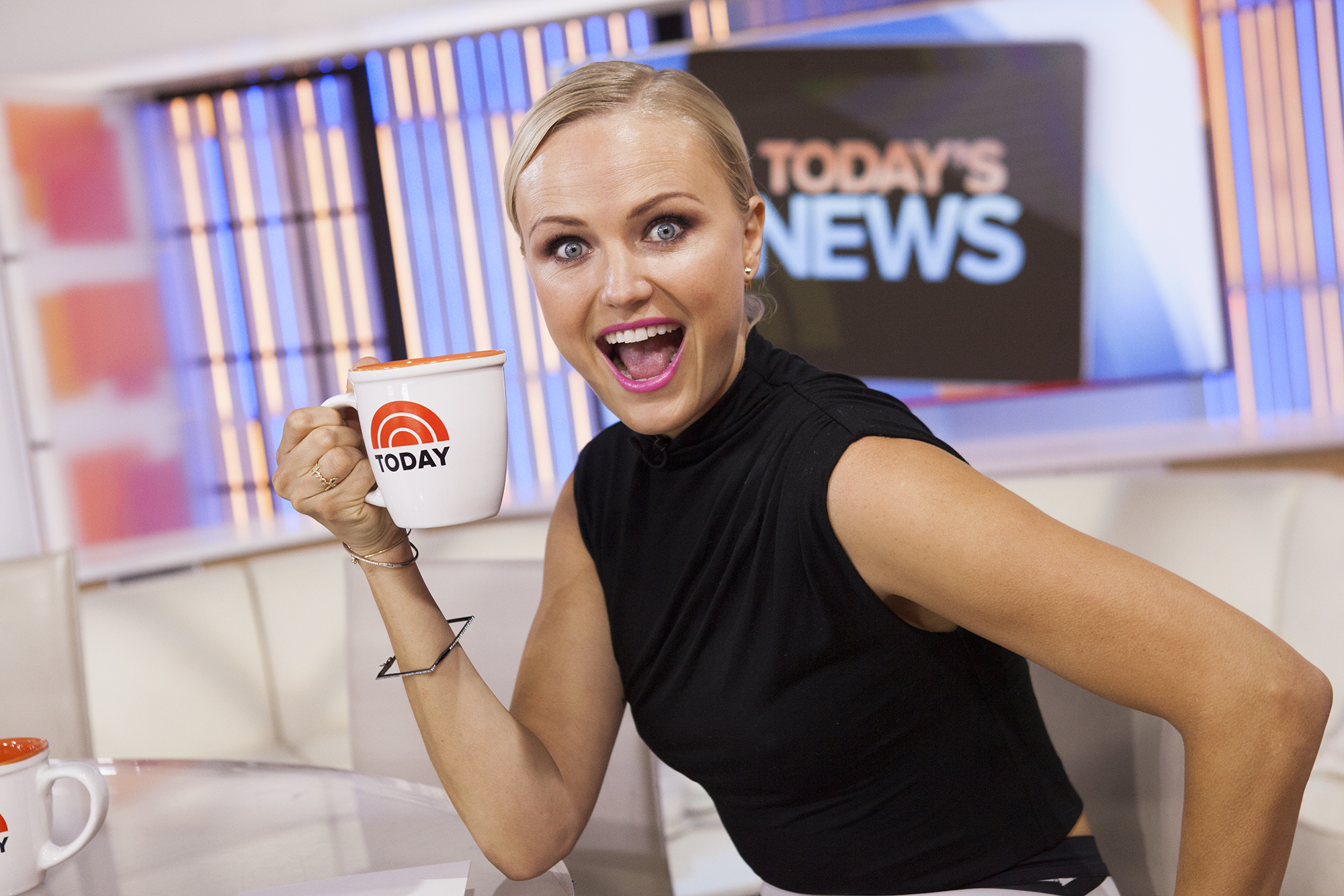 Photos taken by Anthony Quintano